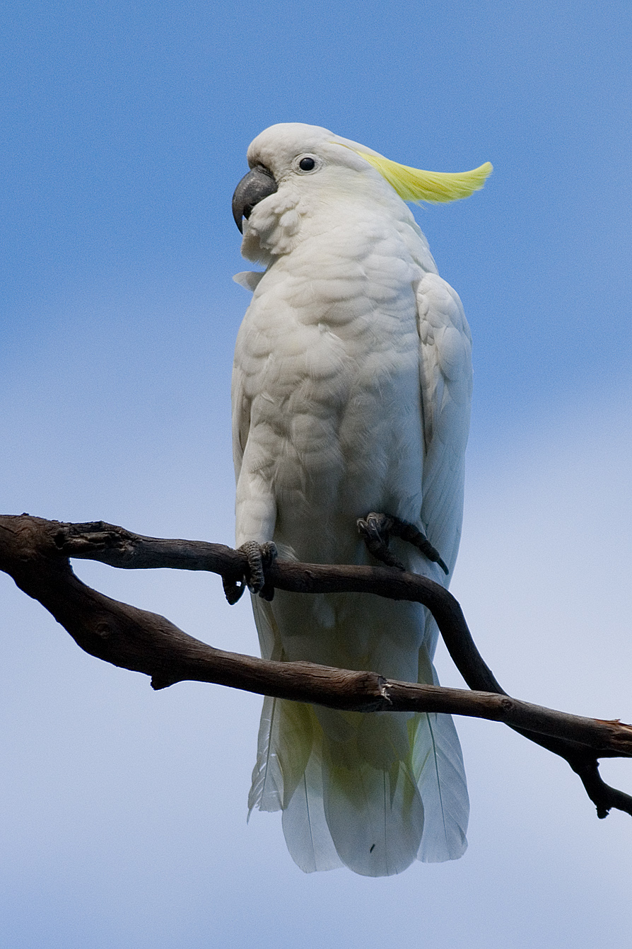 Sulfur-crested Cockatoo (Cacatua galerita), Austins Ferry, Tasmania, Australia Camera data Camera Canon EOS 400D Lens Canon EF 400mm f5.6L Focal length 400 mm Aperture f/5.6 Exposure time 1/1250 s Sensivity ISO 400